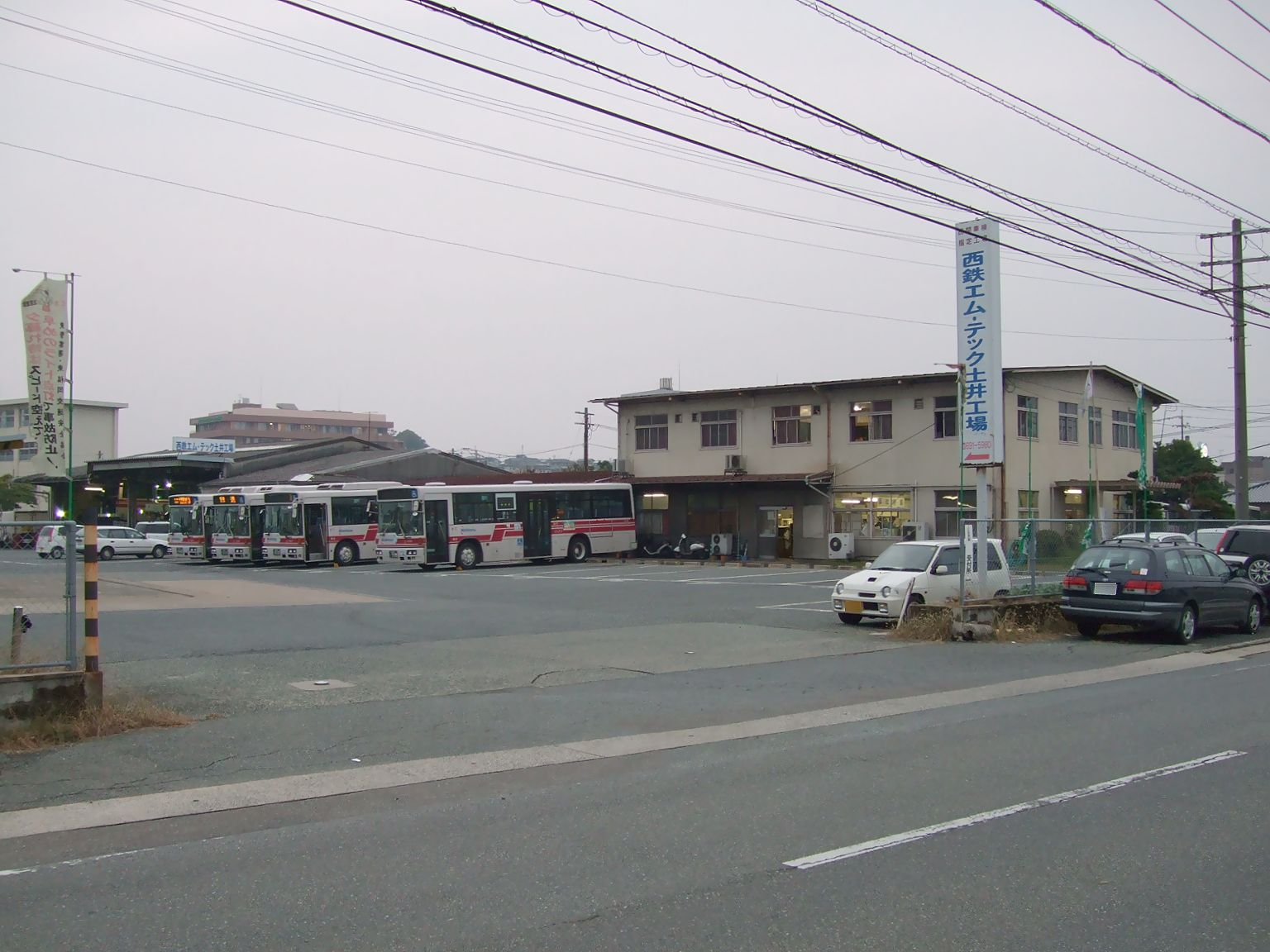 Nishitetsu bus Doi Depot